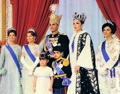 The Coronation of the Shah of Iran in 1967.